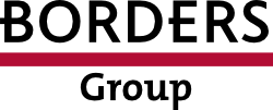 Borders Group logo.